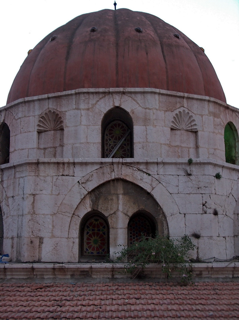 Al-Rukniyah Madrasa